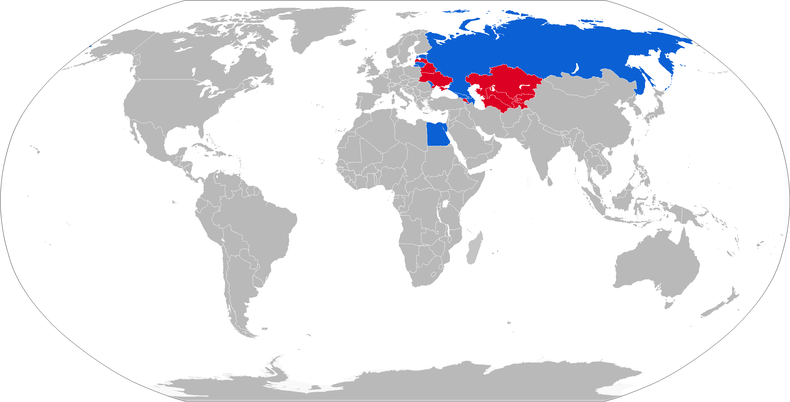 Map with 2B11 operators in blue and former operators in red